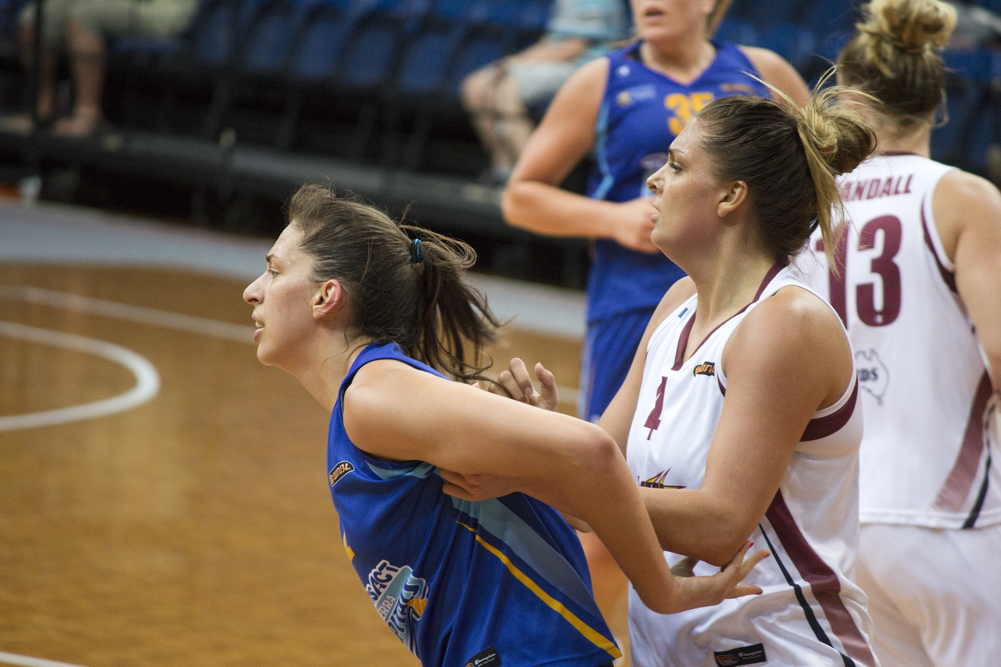 Marianna Tolo at the Canberra Capitals vs Logan Thunder held at AIS Arena at the Australian Institute of Sport